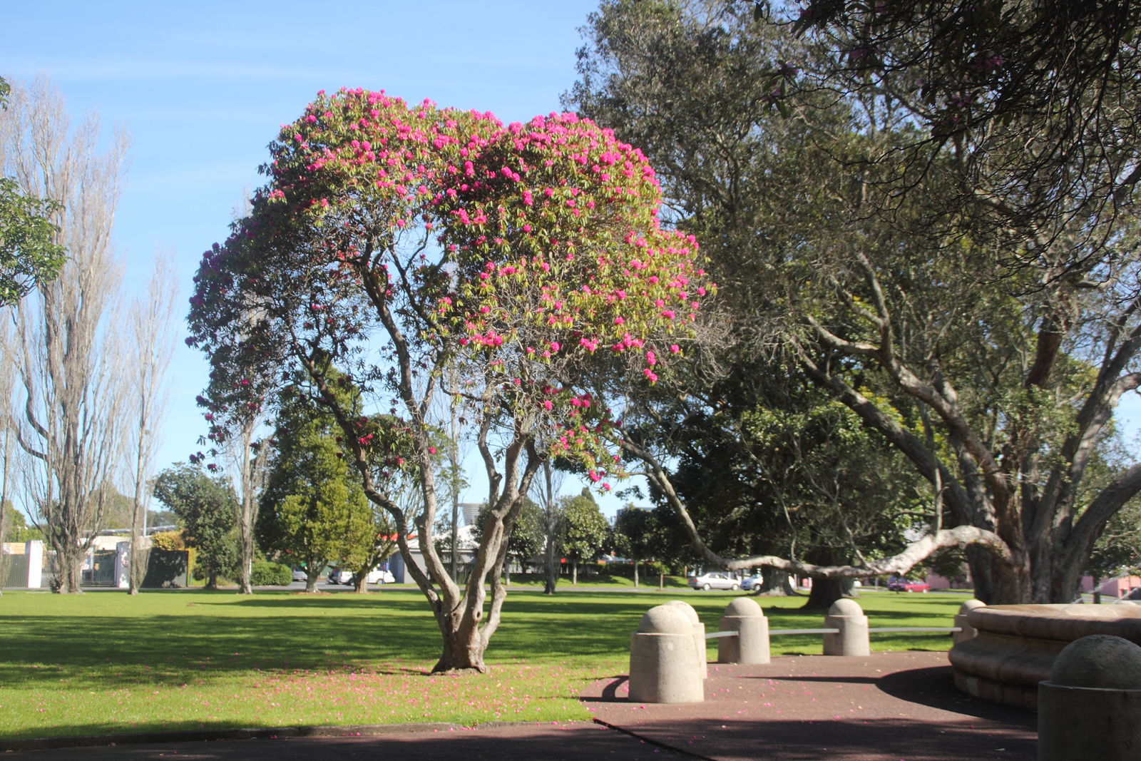 Cornwall Park is named after the Duke and Duchess of Cornwall and York (later King George V and Queen Mary of England). During the Royal visit to Australia and New Zealand in 1901 Sir John Logan Campbell was asked to be honorary Mayor of Auckland. It was during this visit that he took the opportunity to gift the Park to the people of New Zealand and asked that it be called Cornwall Park. Cornwall Park, 18 September 2013 - Auckland